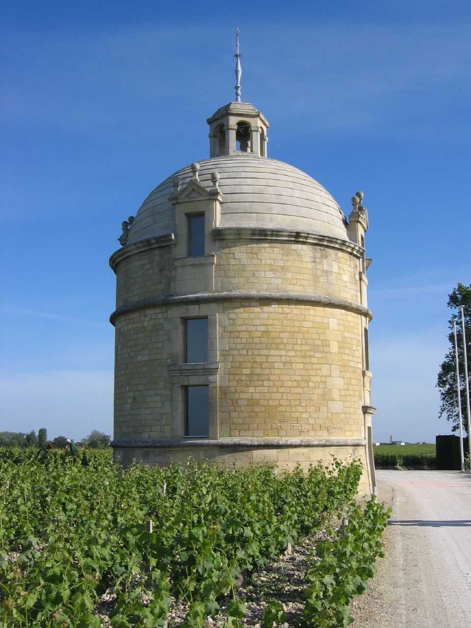 The tower of Château Latour in Pauillac, Gironde